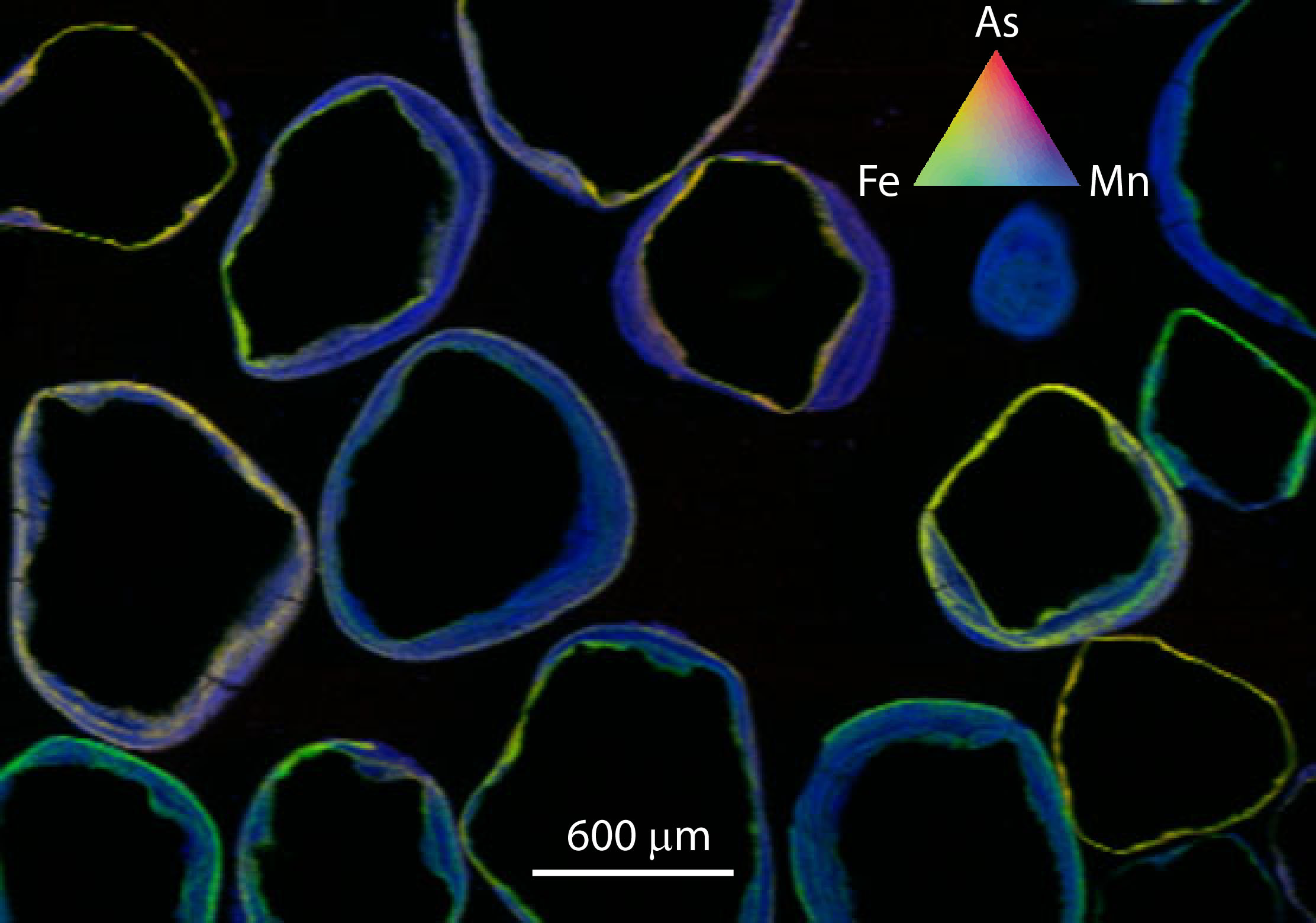 Tricolor (RGB) X-ray fluorescence image of the distribution of As (red), Fe (green), and Mn (blue) in coated quartz grains from a water treatment sand bed. This technology is used to produce potable water from raw water. Arsenic is associated with Fe oxides (speciated here as ferrihydrite), as shown by the yellow color of some layers. Their large variations in hue are indicative of varying As/Fe ratios. Some layers are green, due to the absence or low concentration of As. This fluorescence map was recorded on beamline 10.3.2 at the Advanced Light Source of the Lawrence Berkeley National Laboratory. Pixel size = 10 x 10 microns Adapted from Manceau et al. (Geochimica et Cosmochimic Acta, 2007, 71, 95-128)